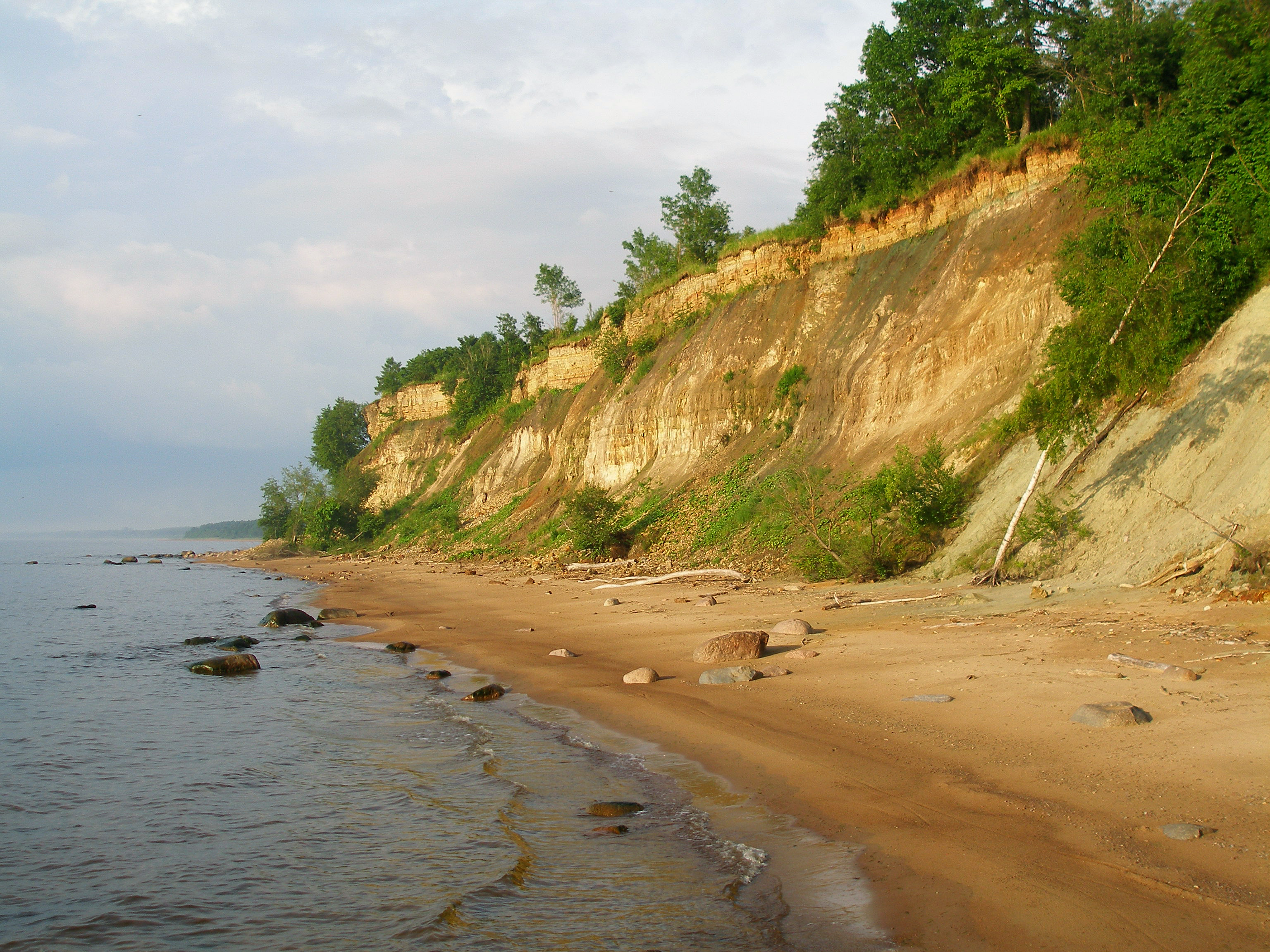 Udria (Utria) cliff. The easternmost cliff on the North Estonian Klint reaching the sea coast.